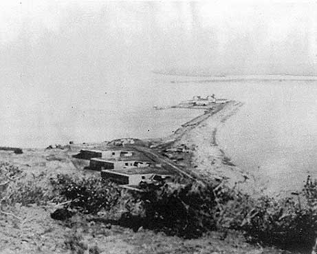 Ballast Point, near present-day San Diego, California. Description at source states: "Battery Wilkeson. This view depicts Battery Wilkeson and Fetterman overlooking the 1890 lighthouse and whaler’s warehouses at the eastern tip of Ballast Point. The ruins of Fort Guijarros would be to the right of the largest gun battery, Battery Wilkeson. Source: Architect Milford Wayne Donaldson, FAIA, Inc. "